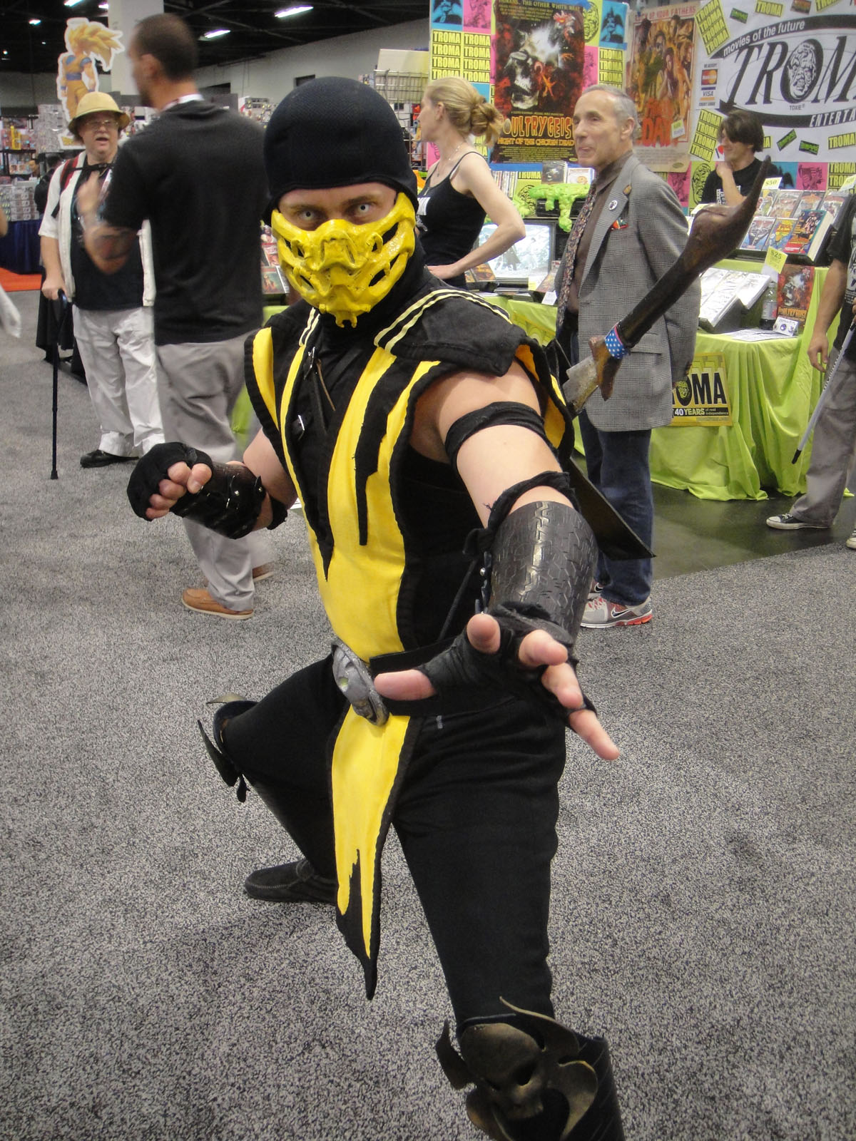 Cosplay of the video game.